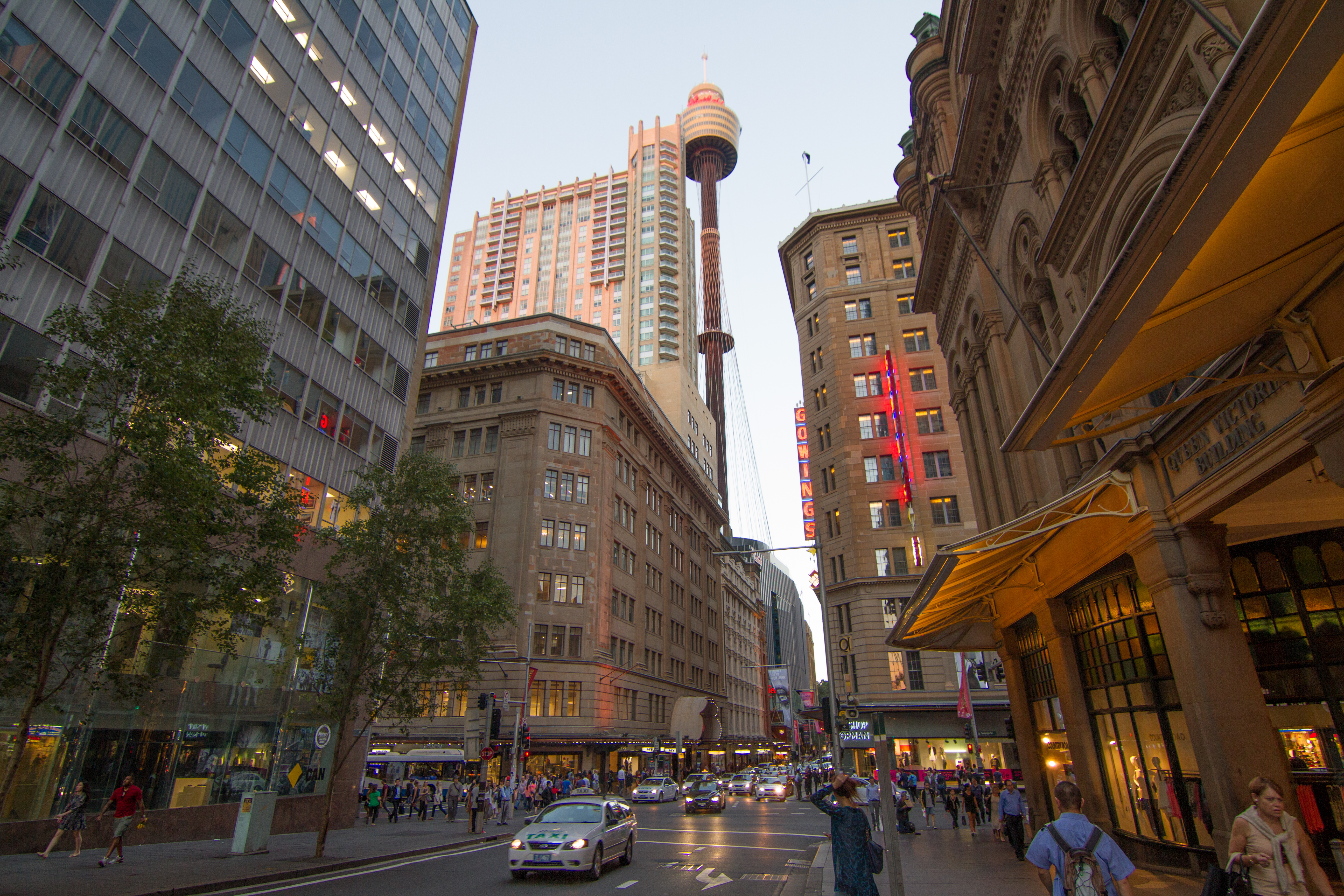 Sydney NSW 2000, Australia